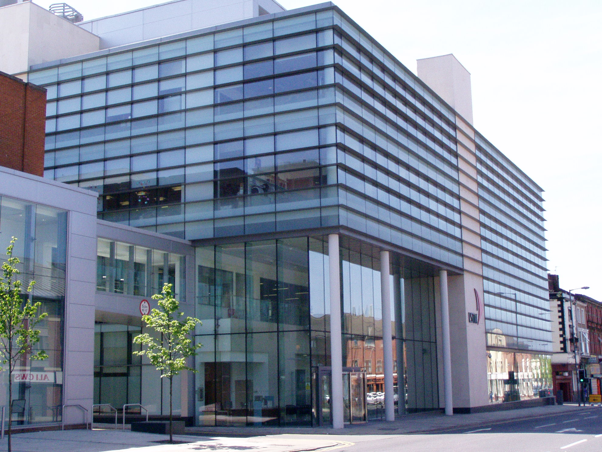 Liverpool School of Tropical Medicine